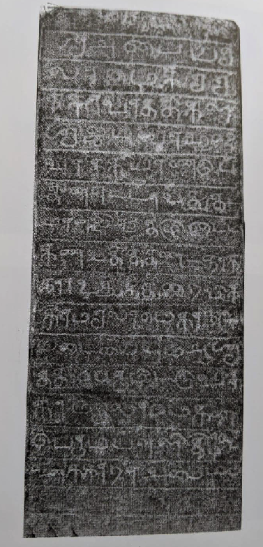 Mayilankulam Velaikkarar inscription of Jayabahu I